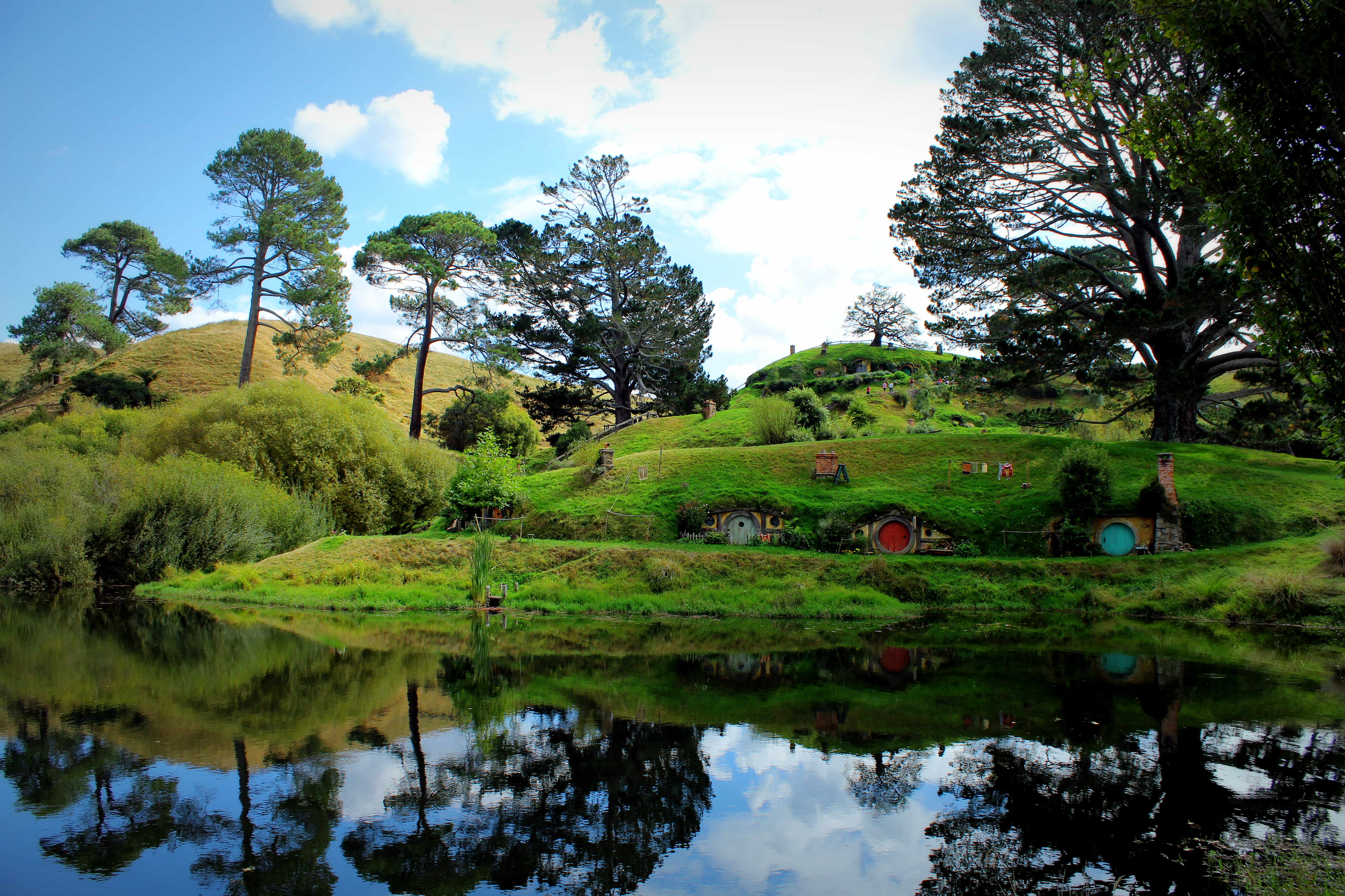 Hobbit holes reflected in water in Hobbiton, Matamata, New Zealand